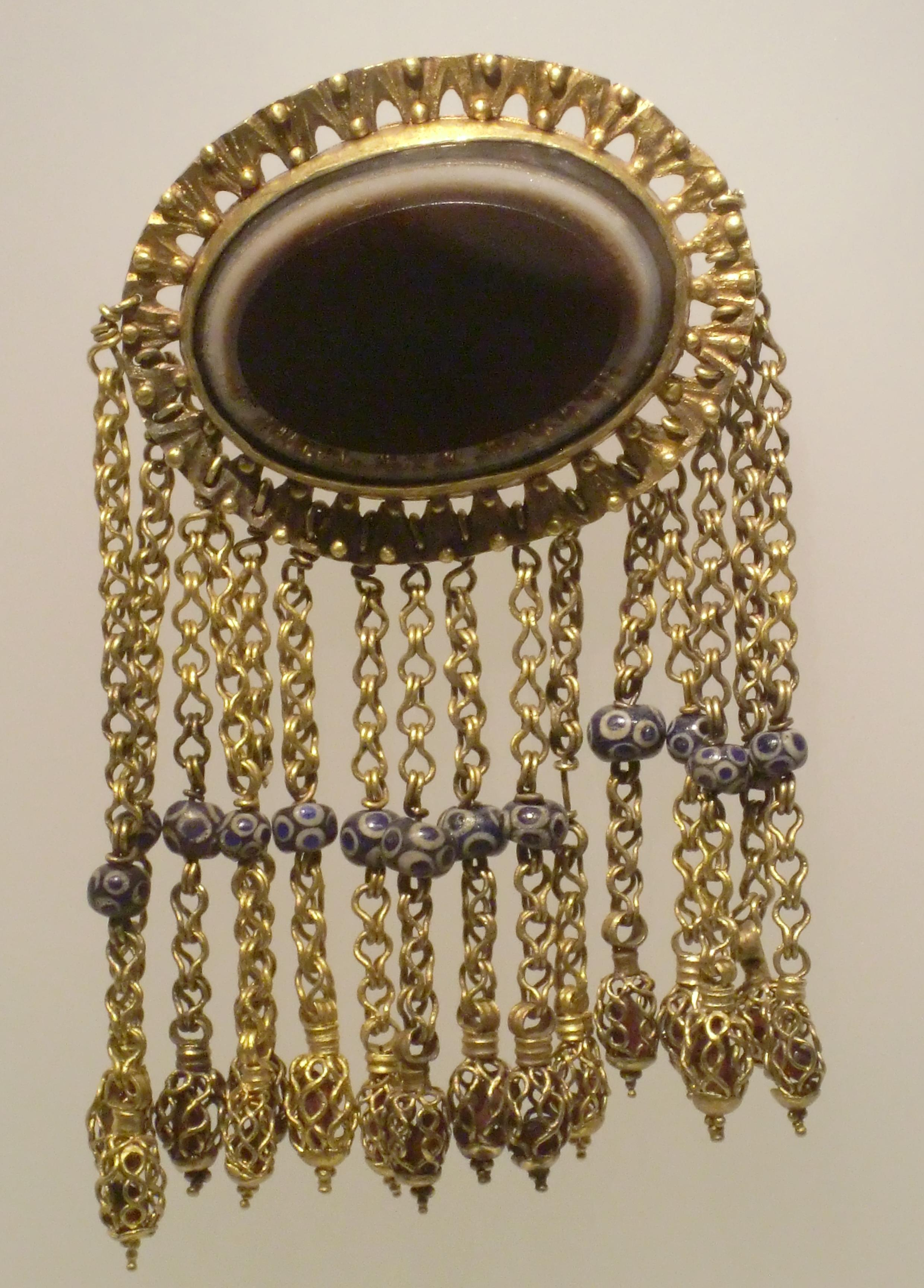 Agate agraffe of Ureki, with thanks to the Georgian National Museum for allowing photography